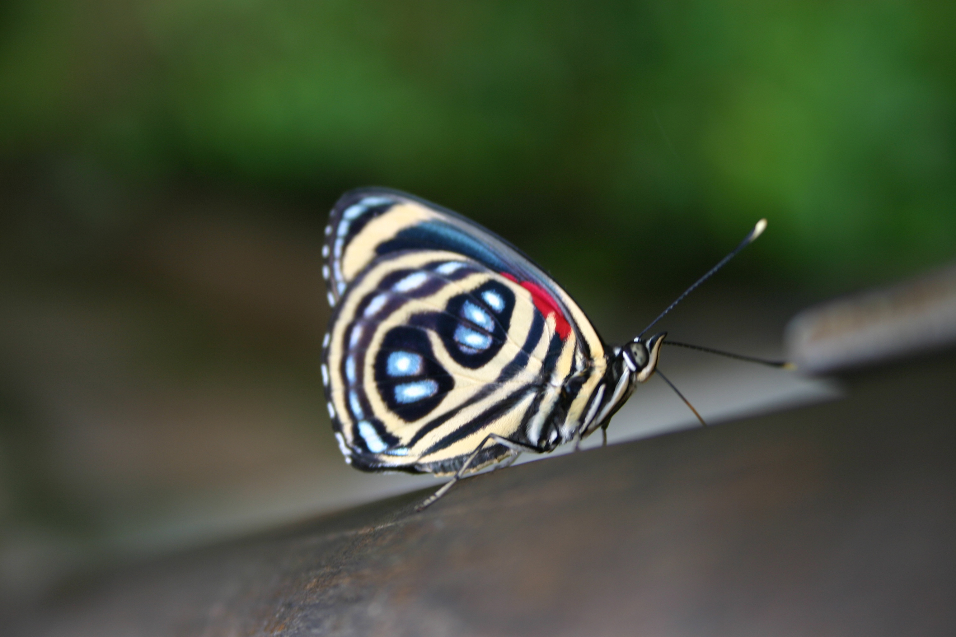 Godart's Numberwing (Callicore pygas) photographed in the national park of Foz do Iguaçu, Brazil.